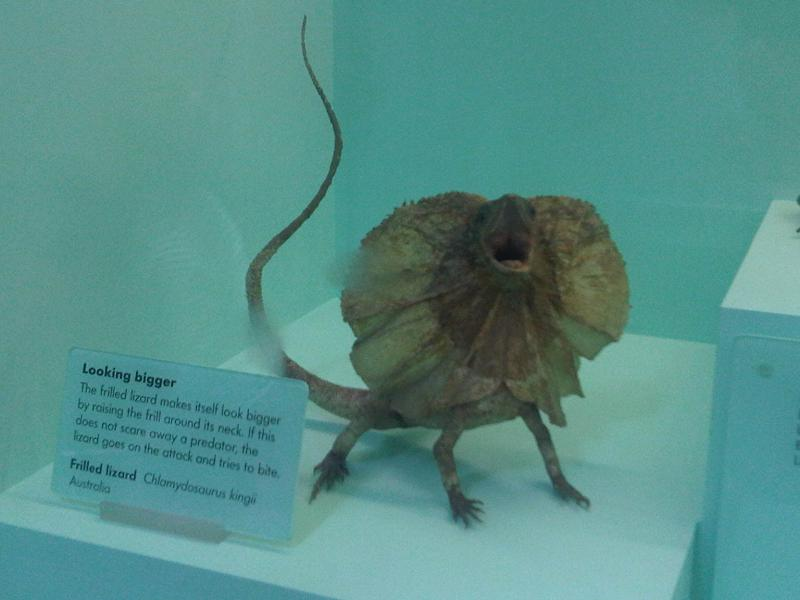 Taxidermied frill-necked lizard, also known as the frilled lizard or frilled dragon (Chlamydosaurus kingii) at the Natural History Museum in London, England.